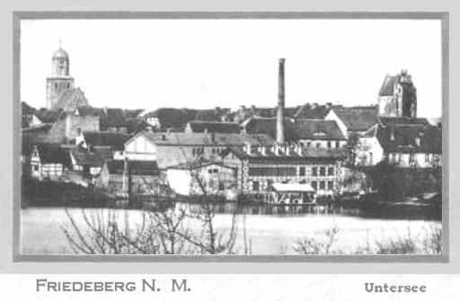 Strzelce Krajeńskie